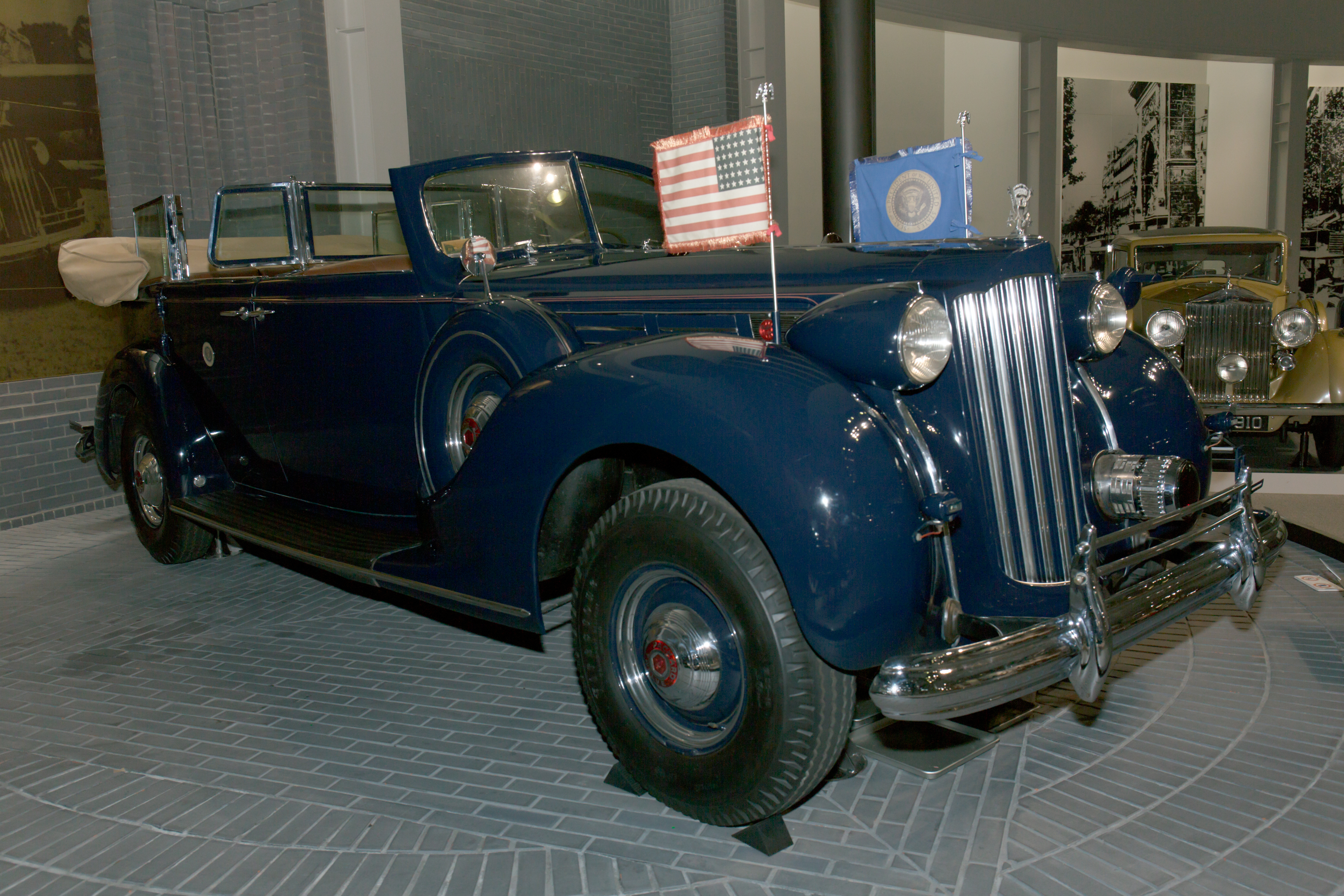 1939 Packard Twelve, Franklin Delano Roosevelt presidential car